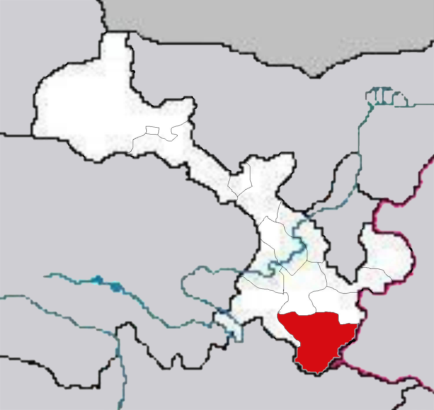 maps of Gansu Province of China